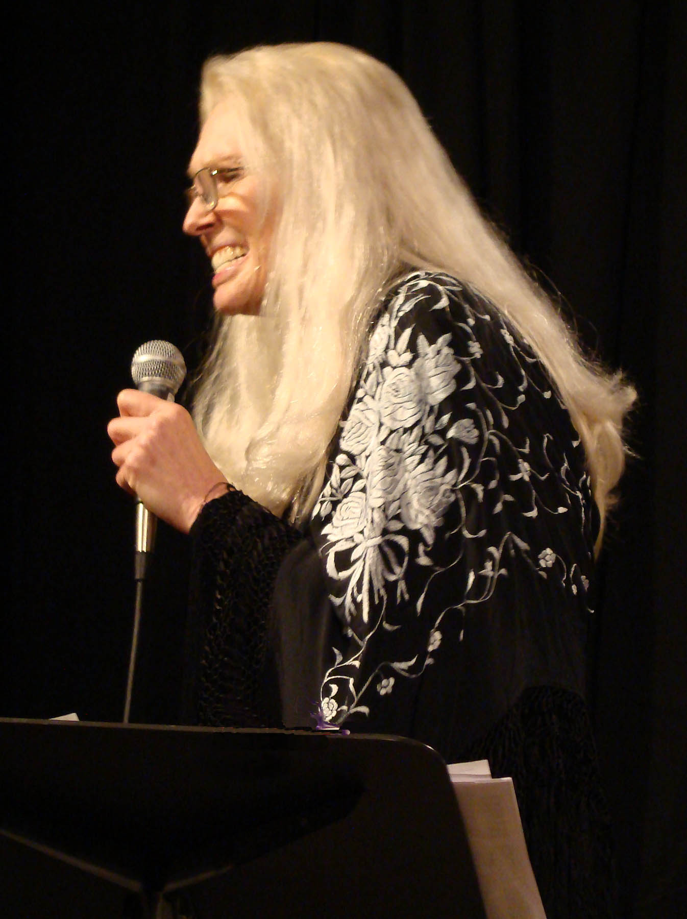 Chris Clark, American soul singer, performing at Pelican Art gallery, Petaluma, California